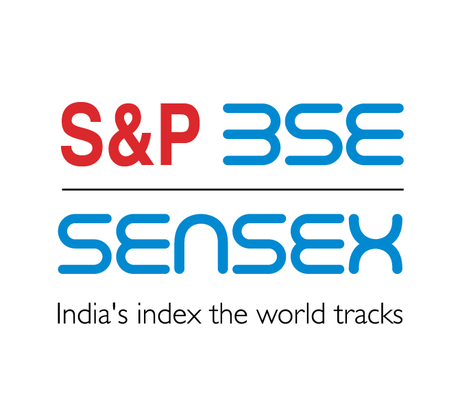 This is the joint logo of S&P BSE SENSEX